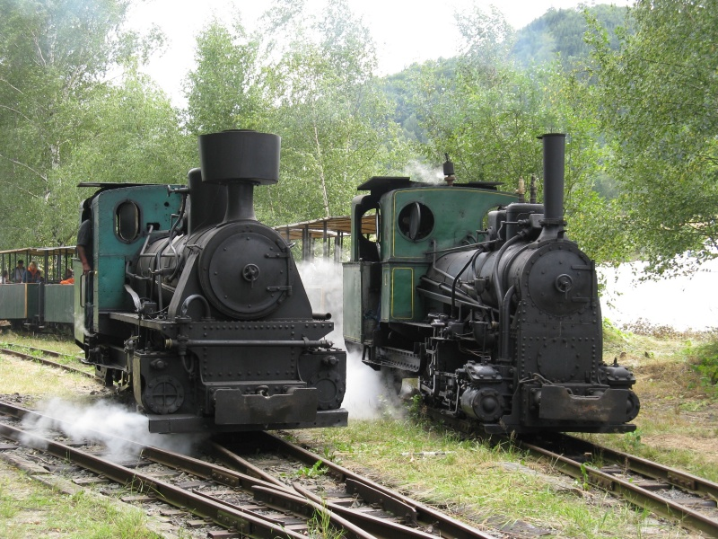 Unique narrow gauge steam locomotives in Mladějov na Moravě